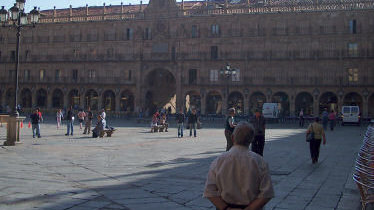 Illustration of an image with an aspect ratio of 16:9 (1:1.77